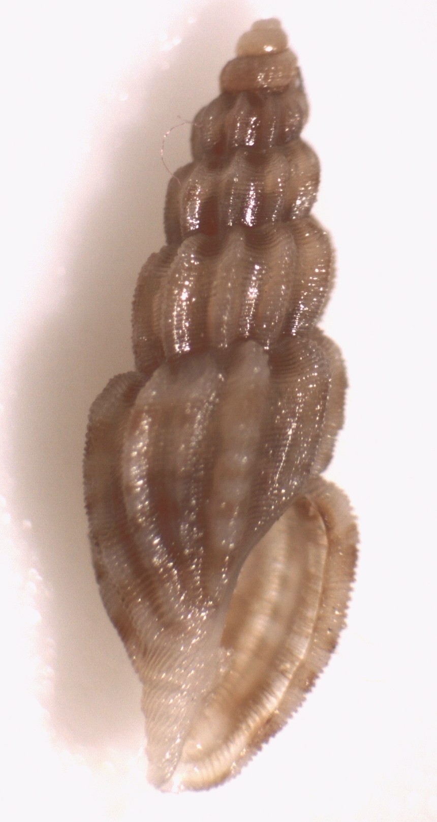 Mangelia multilineolata (Deshayes, 1835) ; Mediterranean Sea, Spain